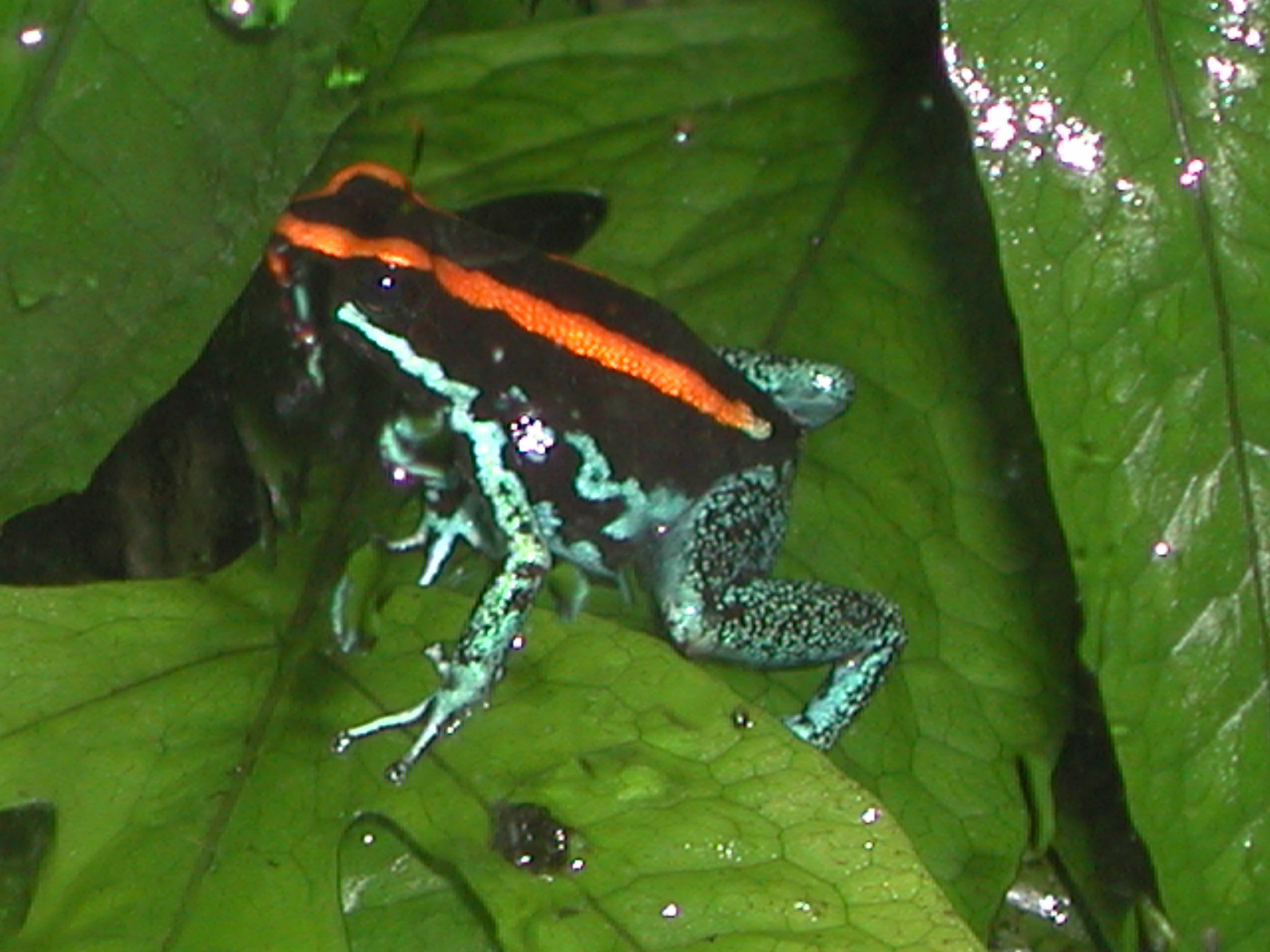 Gestreifter Blattsteiger (Phyllobates vittatus) Photo taken in the Tierpark Dählhölzli in Berne Source: photo uploaded by User:RicciSpeziari. Photographer: Riccardo Speziari